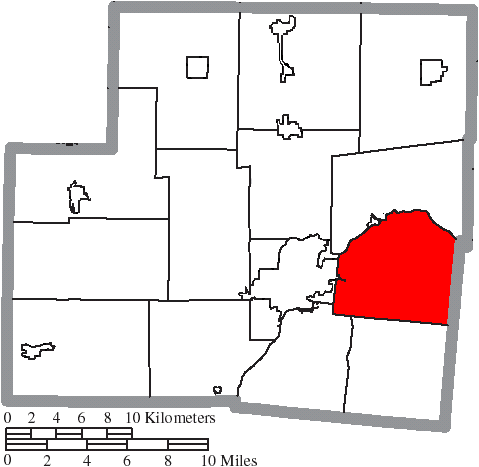 Map of the municipal and township boundaries of Shelby County, Ohio, United States, as of the 2000 census, with the location of Perry Township highlighted. Township borders are shown only in unincorporated areas in order to differentiate incorporated and unincorporated areas more clearly.